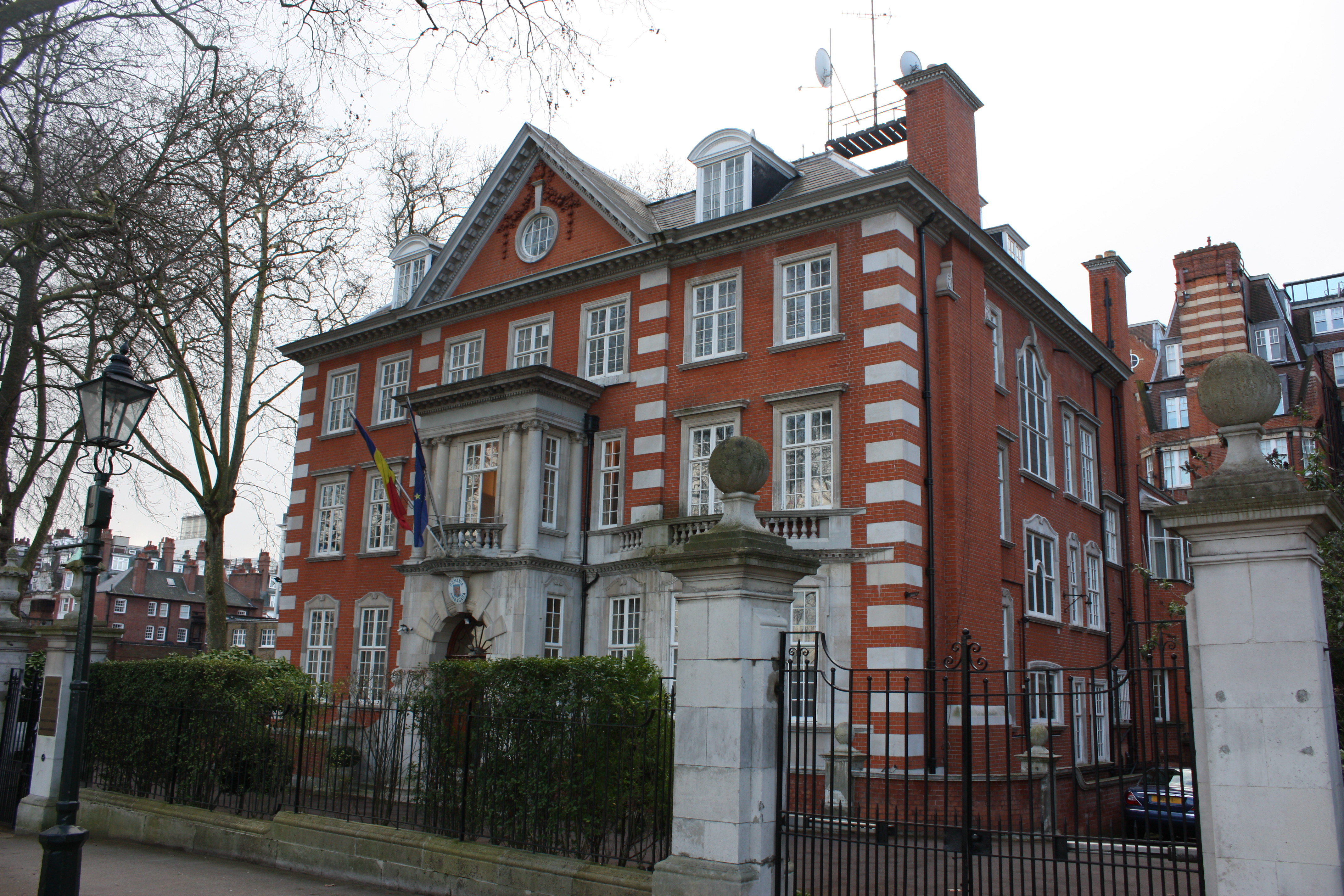 Romanian Embassy in London - in Kensington Palace Gardens